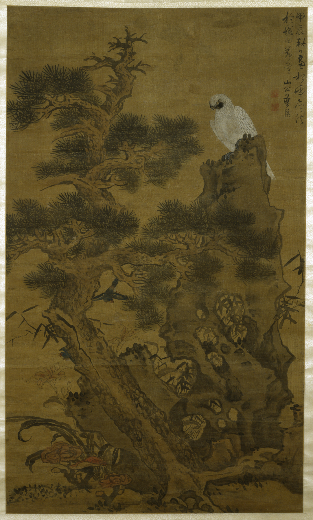 Lan Ying was one of the most important and prolific painters of the 17th century. He became known as the last master of the Zhe [Che] school. As a professional painter who was born in Zhejiang [Che-chiang] province, this was a logical way to classify him, but he studied Northern Song [Sung] and Yuan [Yüan] Dynasty models so assiduously that there is little of the Southern Song [Sung] wet-brush manner characteristic of the Zhe [Che] school evident in his paintings. In 1664, Lan Ying was seventy-nine years old. Other than this hanging scroll, his latest recorded painting dates from 1660, four years earlier. The elderly artist is known to have been in Peking in the early 1660s, where in 1662 the Kangxi emperor came to the throne; perhaps this painting was executed there.